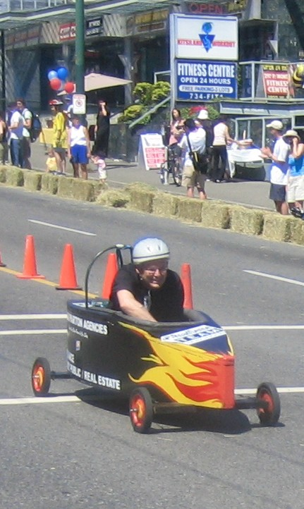 Gordon Campbell racing in a Kitsilano, British Columbia soap box derby.